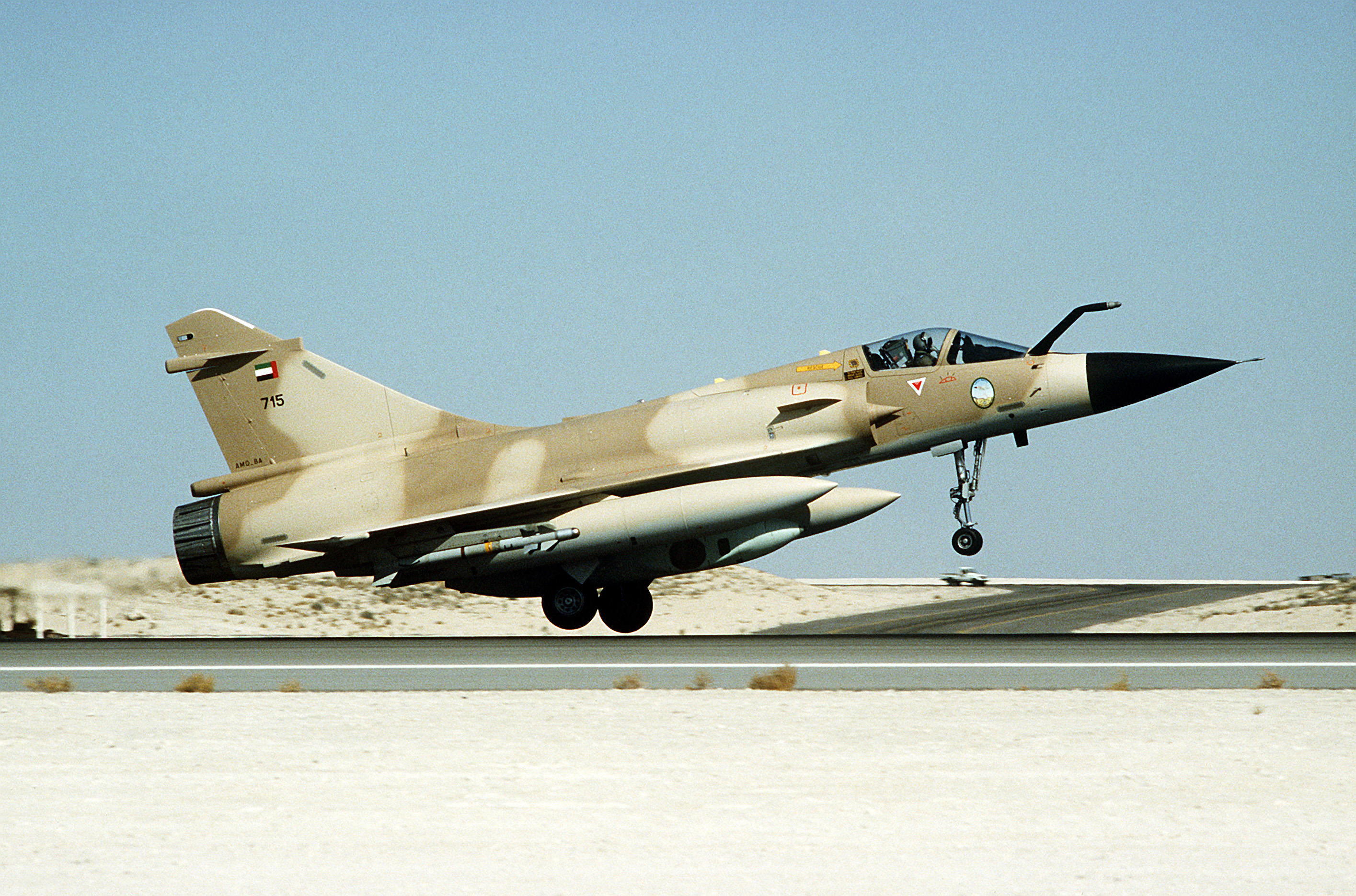 An Emiri Mirage 2000RAD fighter aircraft takes off in support of Operation Desert Storm. Note the HAROLD reconnaissance container under the fuselage.